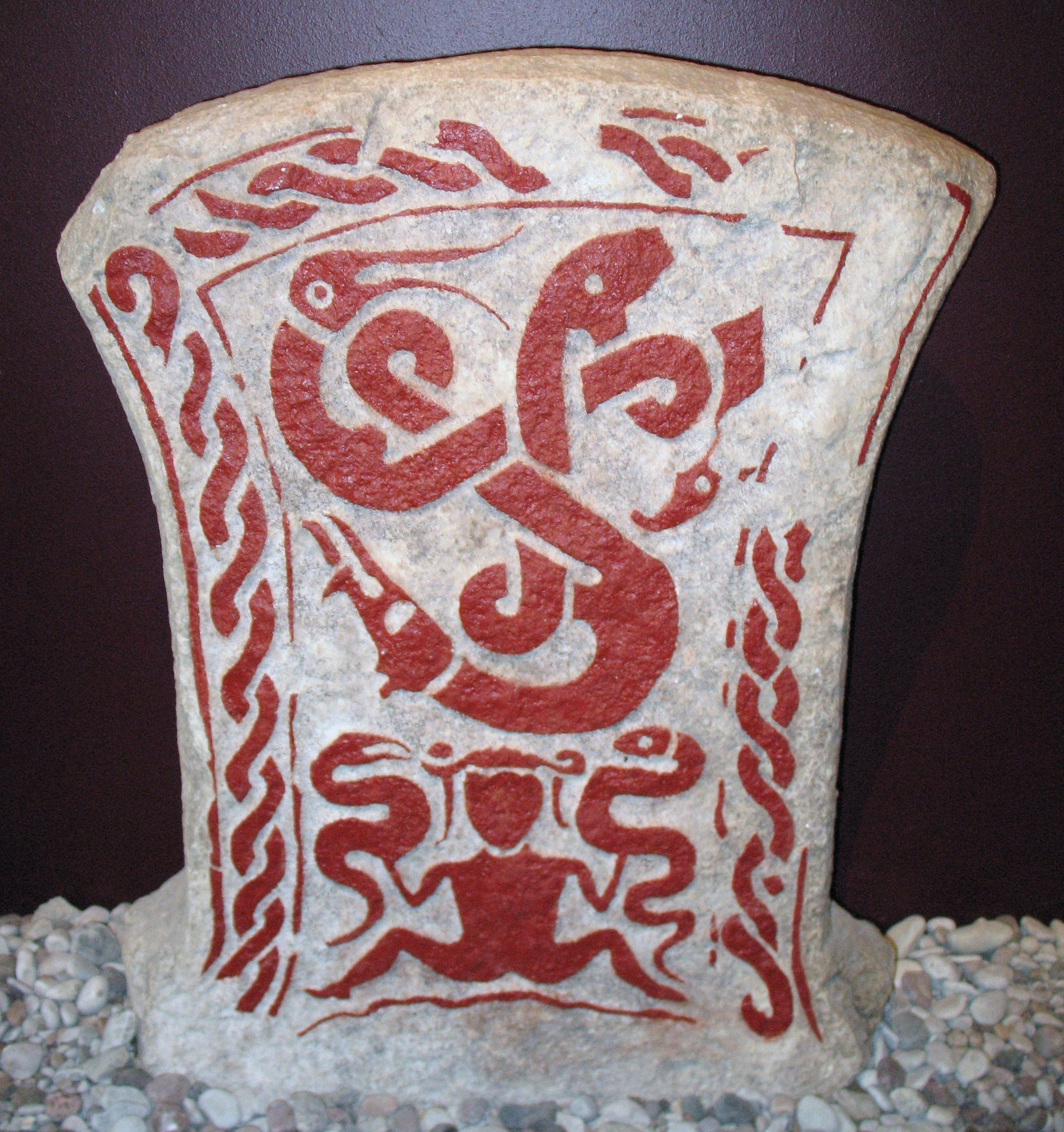 Vitastjerna's dream from the Gutasaga with the three entwined snakes symbolizing Graip, Gute and Gunfjaun, with her at the bottom, Gotland, Sweden. Now in Fornsalen museum, Visby.